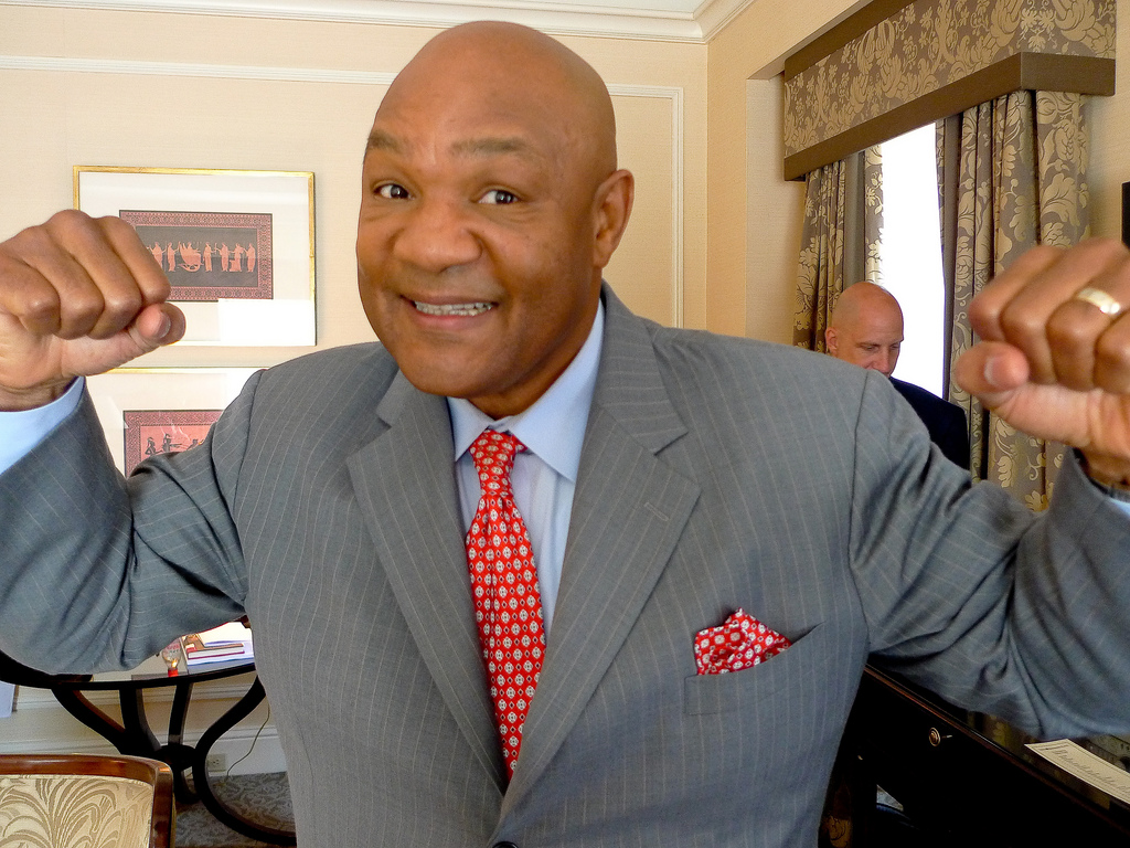 Boxer George Foreman